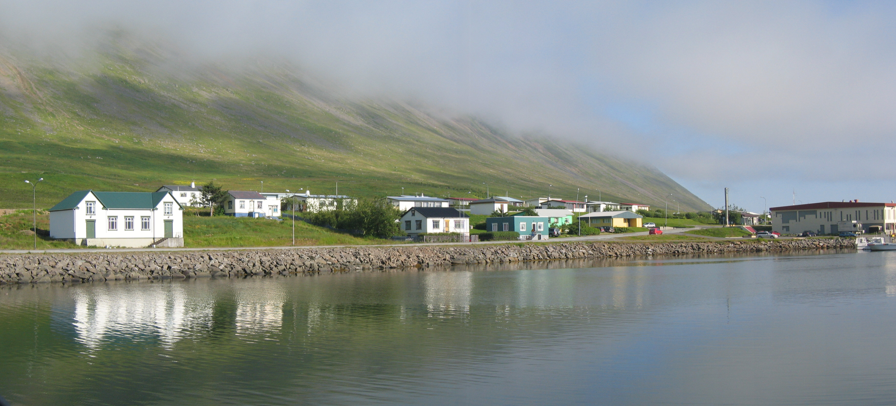 Súðavík Iceland photo by Salvor Gissurardottir July 2006 several photos stiched together